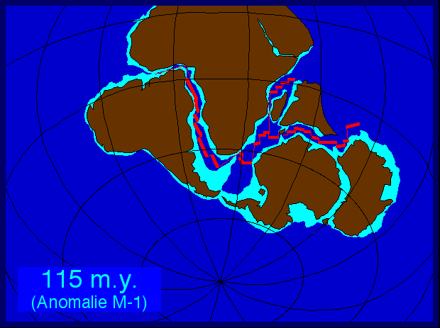 Breakup of Gondwana: position of continents on the Southern hemisphere 115 Million years ago